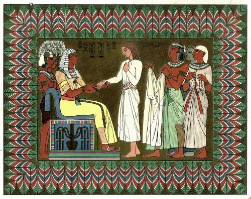 Illustration by Owen Jones from "The History of Joseph and His Brethren" (Day & Son, 1869). Scanned and archived at where it was marked as Public Domain. Text from Book: And Pharaoh took off his ring from his hand, and put it on Joseph's hand, and arrayed him in vestures of fine linen, and put a gold chain about his neck. Genesis, C. XLI. V. 42.